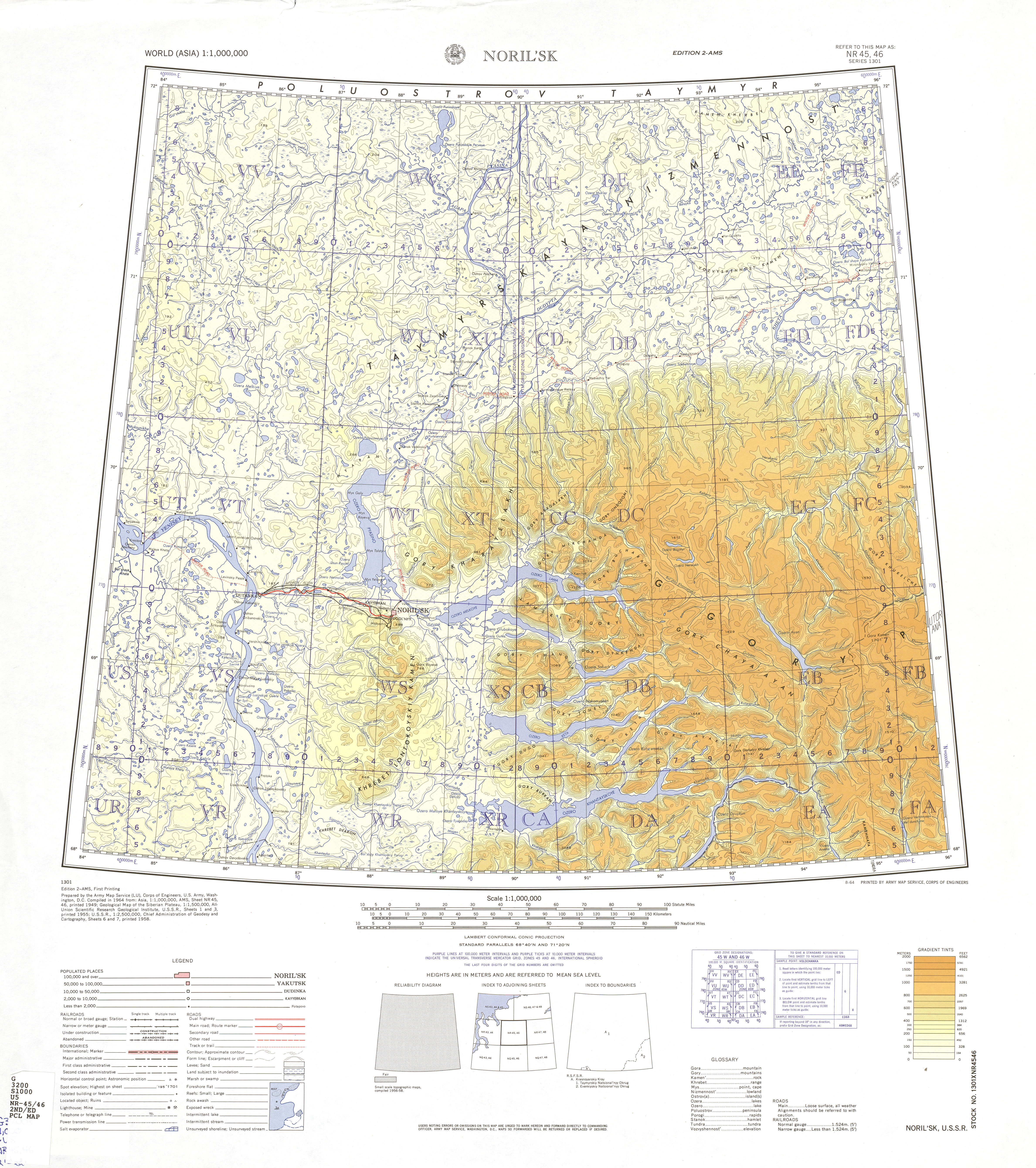 NR 45, 46 Noril'sk [U.S.S.R.] Series 1301, Edition 2-AMS (6.9 MB)